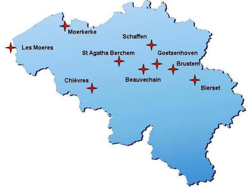 A map of Belgium, locating the different airfields at which 9th Squadron was stationed.